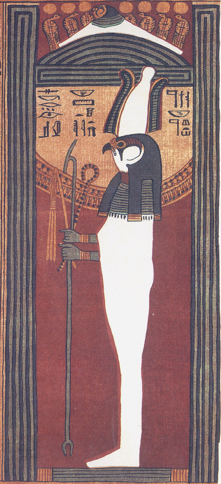 Facsimile of a vignette from the Papyrus of Ani. The syncretized god Sokar-Osiris stands in a shrine. His iconography combines that of Osiris (atef-crown, crook and flail) and Sokar (falcon head, was-sceptre). Atop the shrine is another image of Sokar.